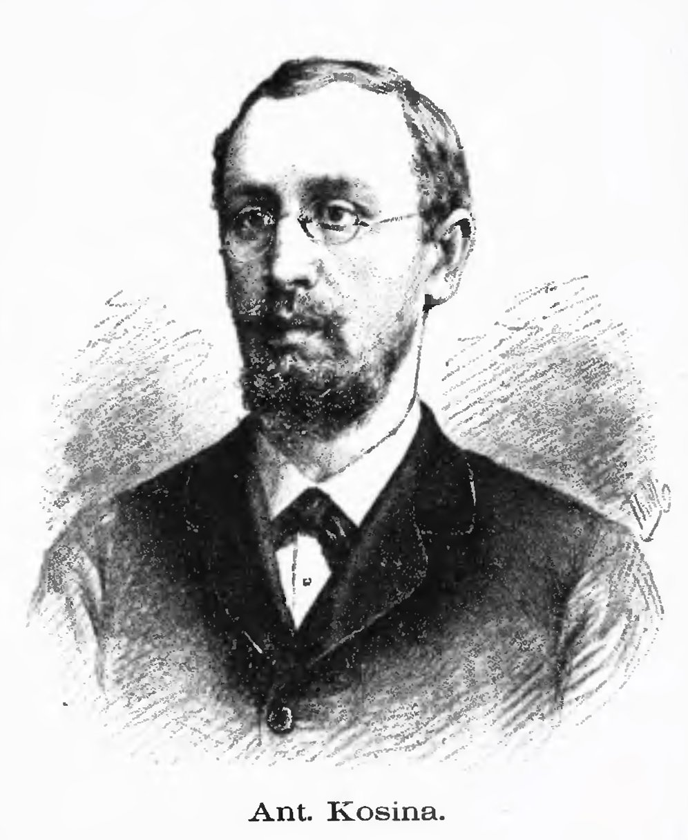 Portrait of Antonín Kosina (1849-1925), Czech teacher and writer of books for schoolchildren.